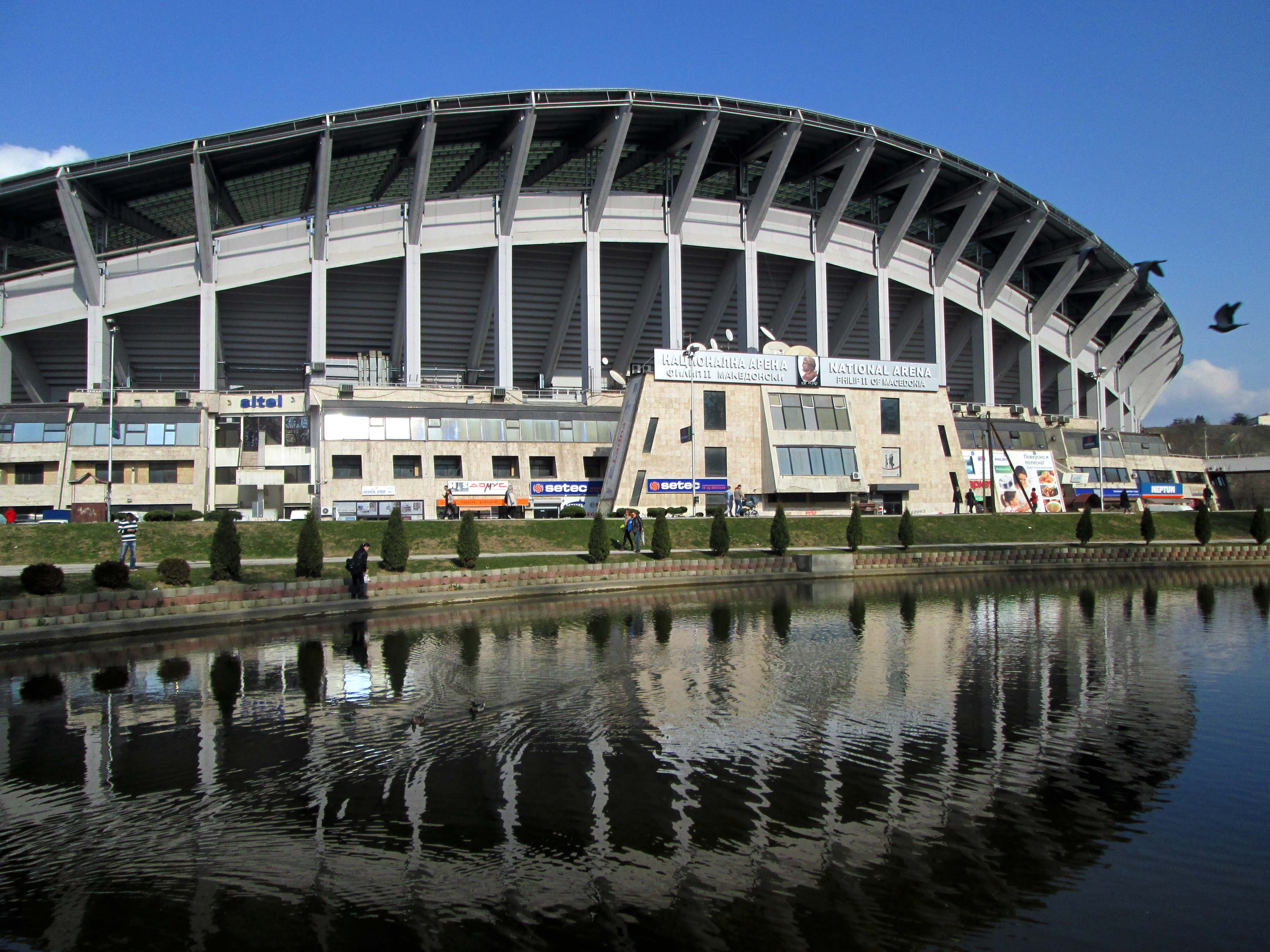 The City Park in Skopje